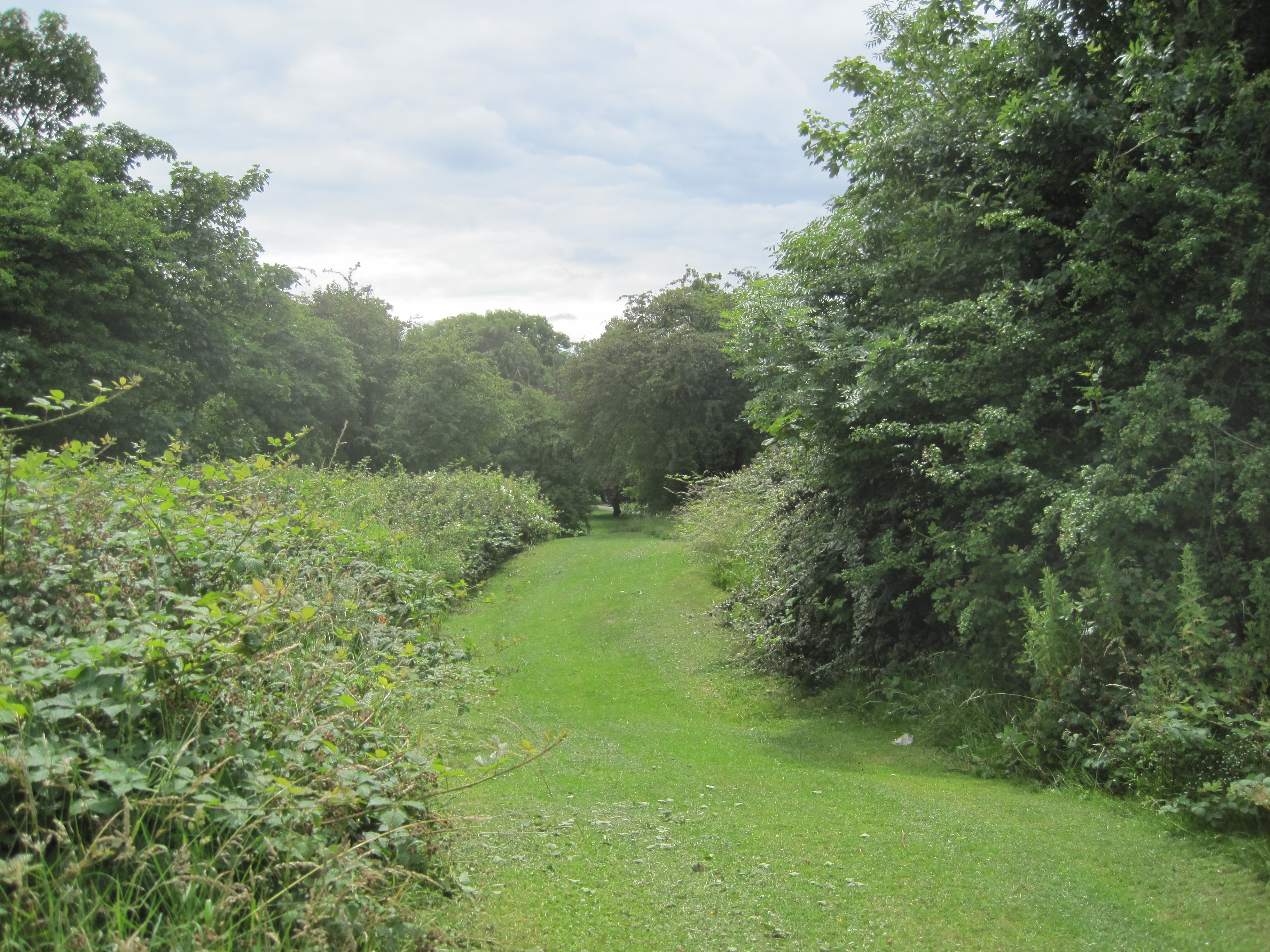 Swan Lane Open Space, Whetstone, Barnet, London